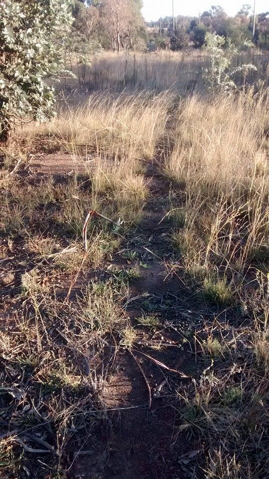 Foraging trail leading to a Iridomyrmex purpureus satellite nest. These satellite nests are connected to the main nest through well defined trails and are mostly next to a tree, where valuable food sources these ants collect are found.